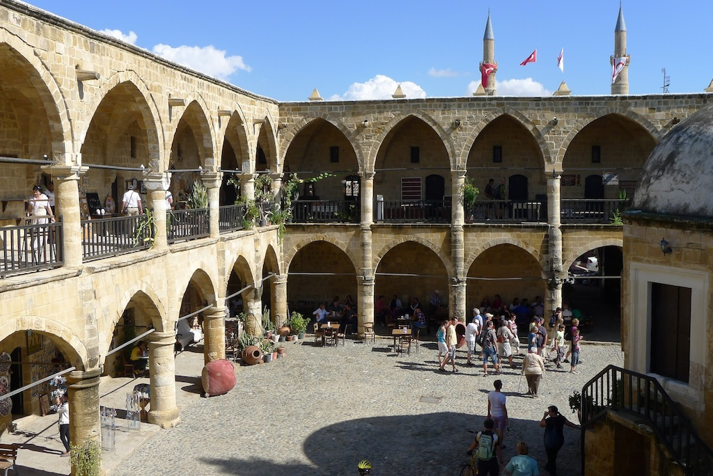 Big Khan in Nicosia, Cyprus.